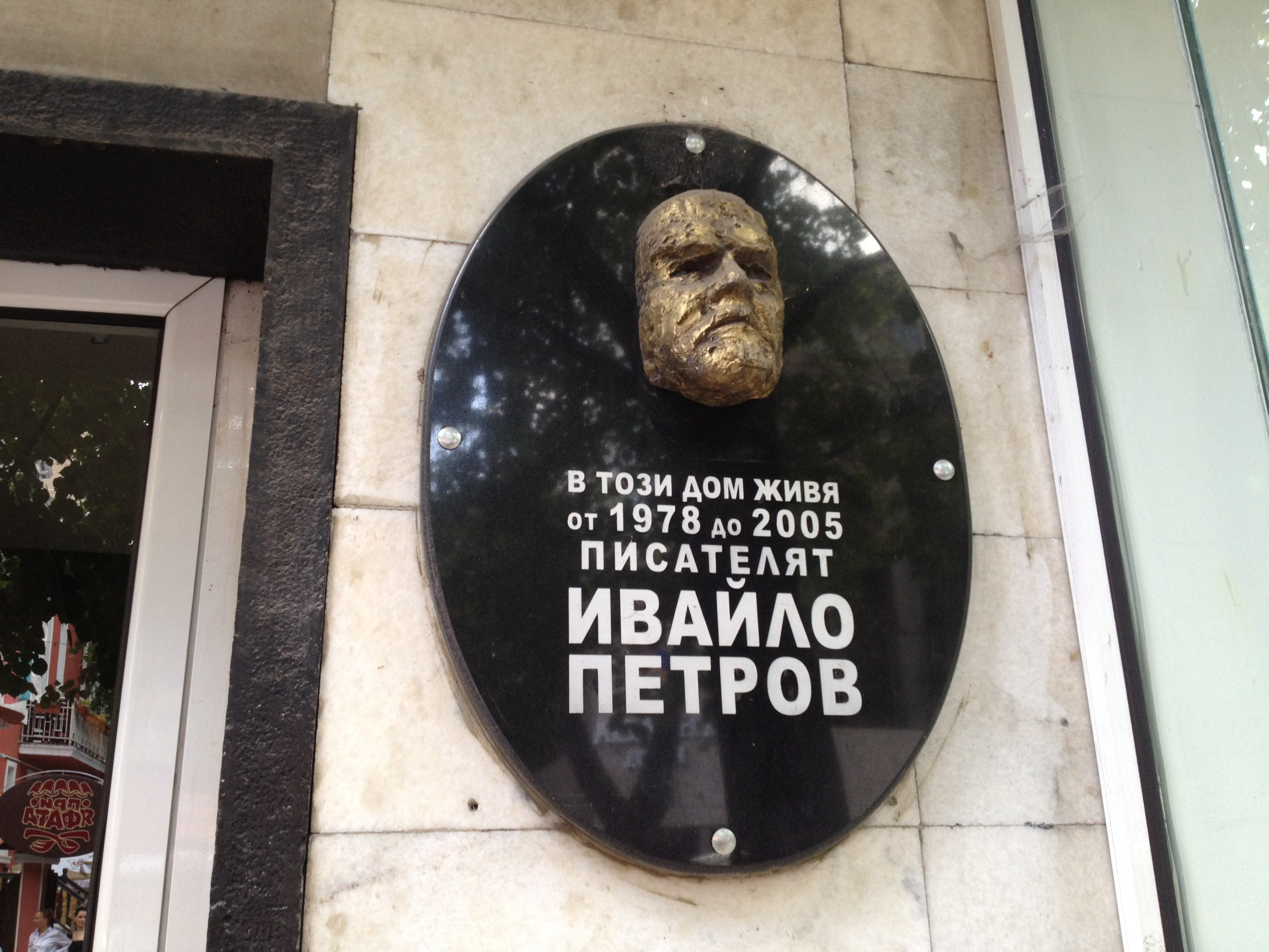 Memorial plaque to Ivaylo Petrov in front of his Sofia home.